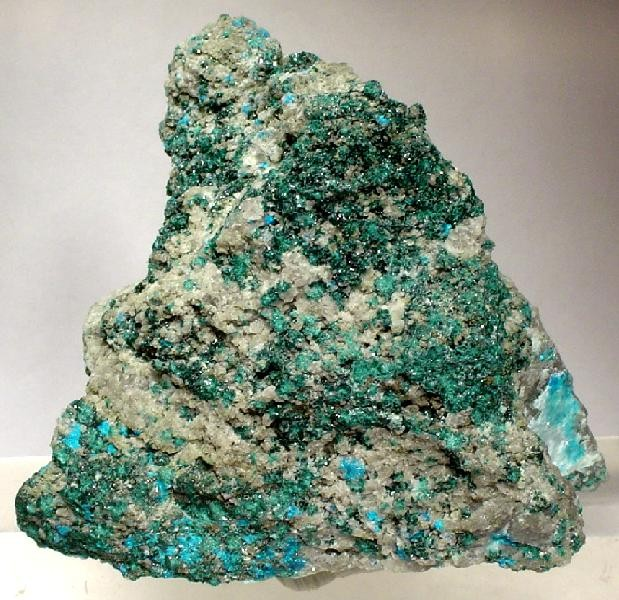 Lammerite, Lemanskiite Locality: El Guanaco Mine, Guanaco (Huanaco), Santa Catalina, Antofagasta Province, Antofagasta Region, Chile (Locality at ) Size: 5.0 x 4.5 x 4.0 cm. A VERY RICH and excellent combination specimen of the RARE and an uncommon copper arsenates from the El Guanaco Mine of Chile. Rare, dark green, microcrystals of lammerite are nicely accented with turquoise-blue sprays of uncommon lamanskiite on a quartz-rich matrix. The El Guanaco Mine is the Type Locality for lemanskiite.